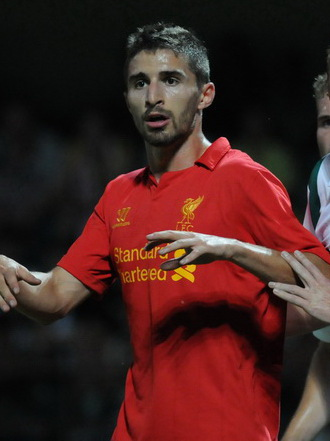 he is a great footballer.